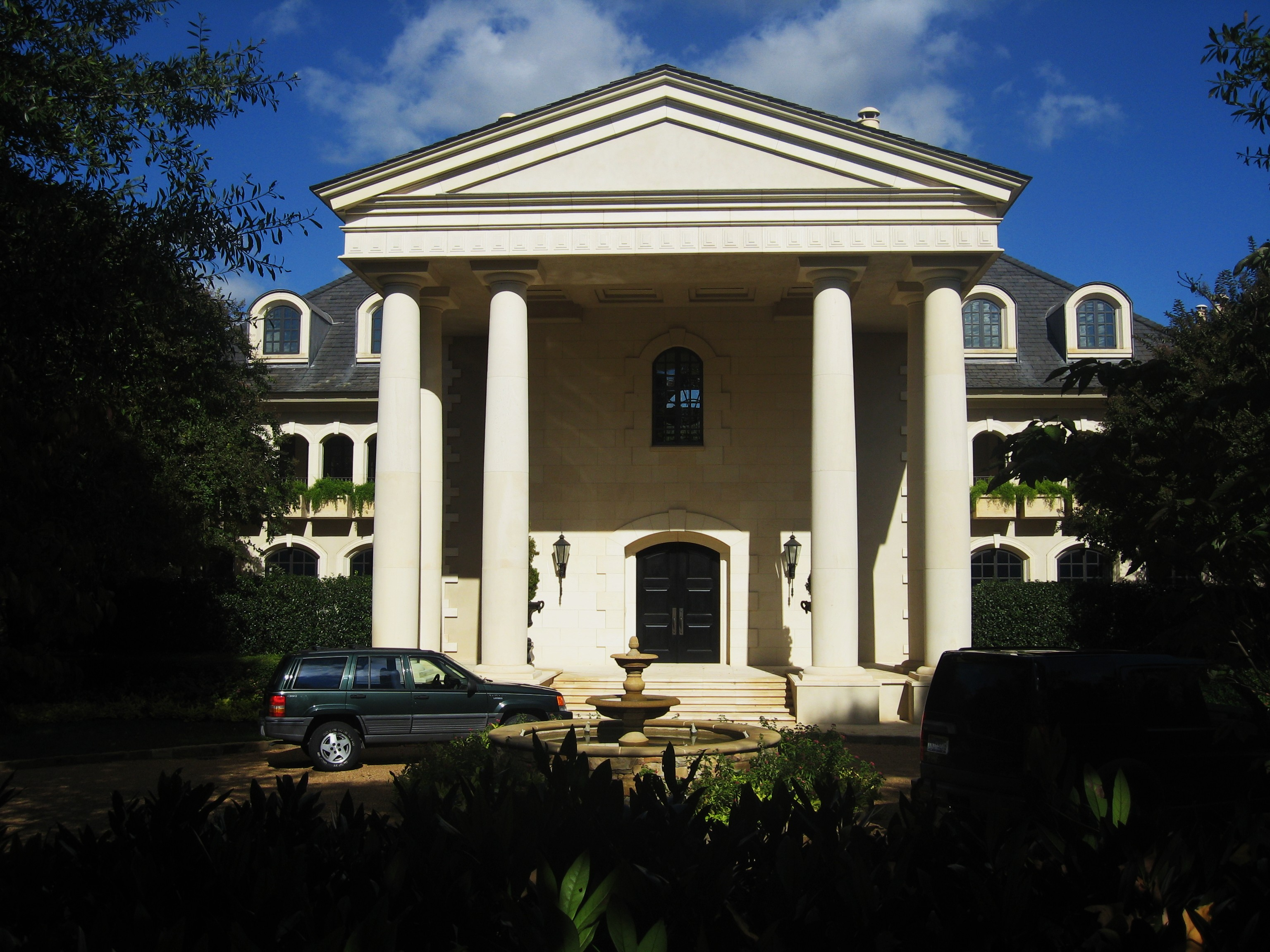 House in North Ridge Country Club. Picture taken by User:Willthacheerleader18